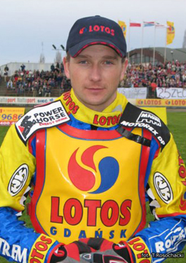 Krzysztof Jabłoński, a speedway rider from Poland.